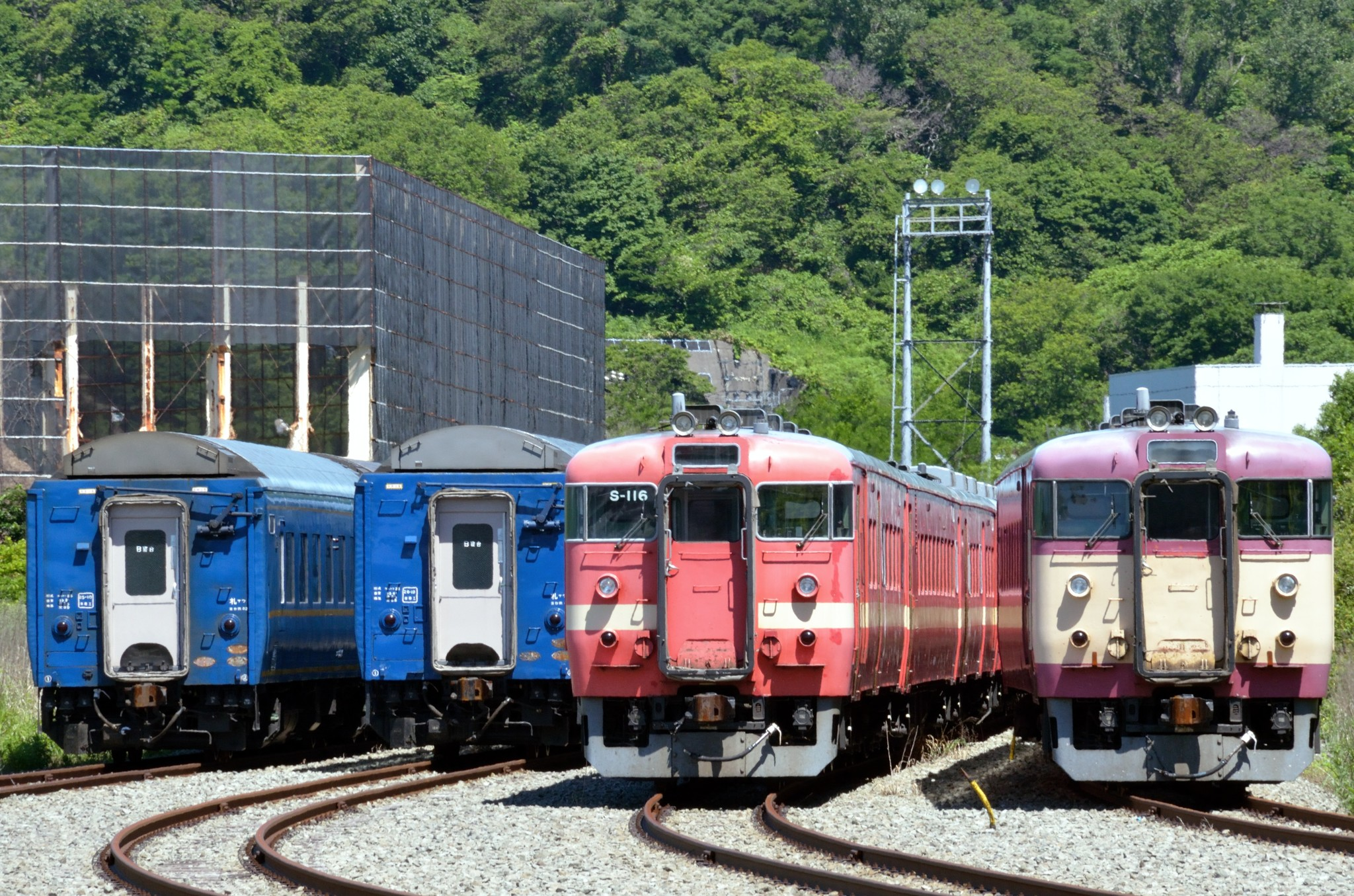 Withdrawn JR Hokkaido 24 series (Hokutosei) sleeping cars and 711 series EMUs awaiting cutting up at Jinyamachi Rinkai Yard in Muroran, Hokkaido, Japan